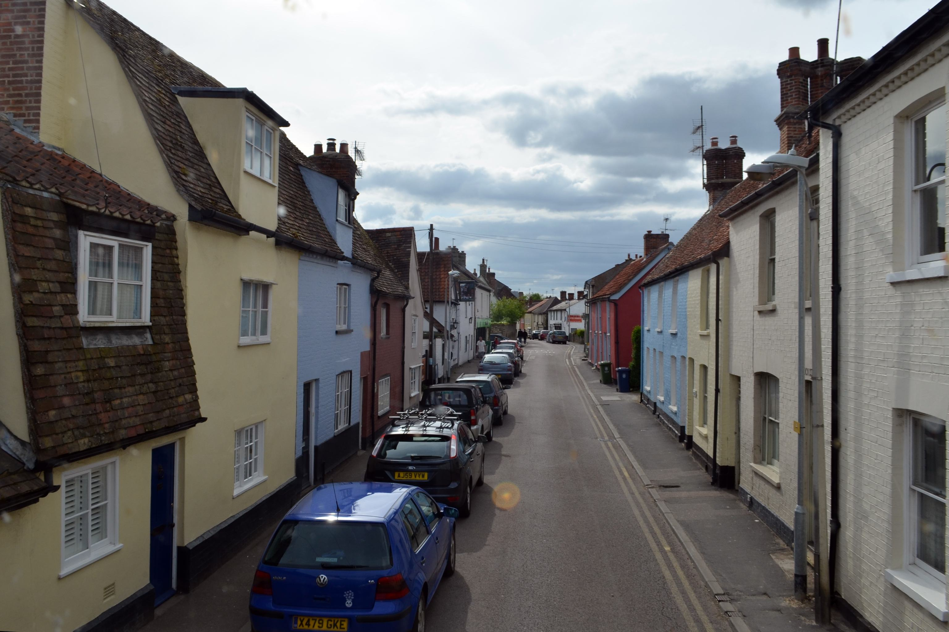 High Street of Linton, Cambridgeshire in May 2015.